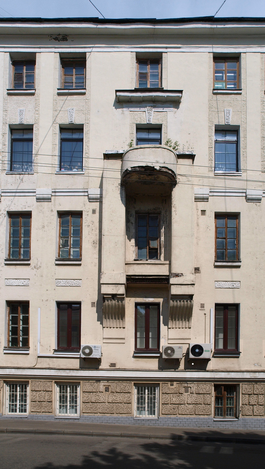 Khokhlovsky Lane 3, Moscow.